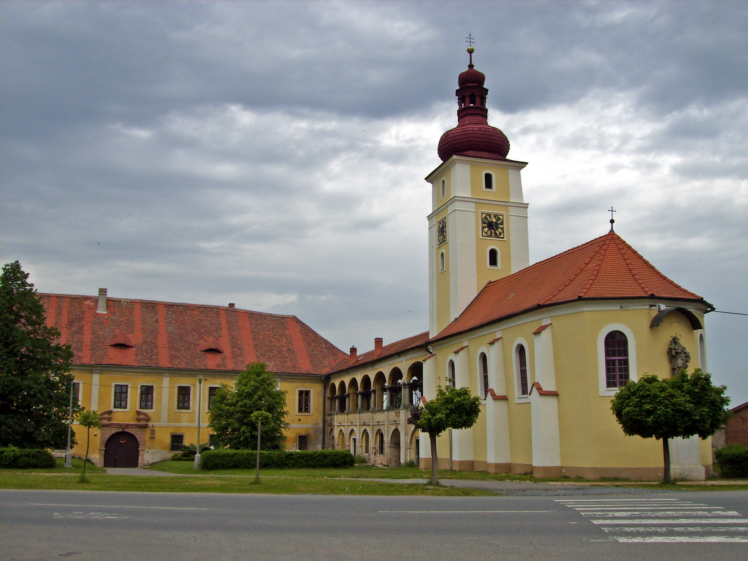 Chateau chapel of St Martin in Nové Dvory, Kutná Hora District, Czech Republic